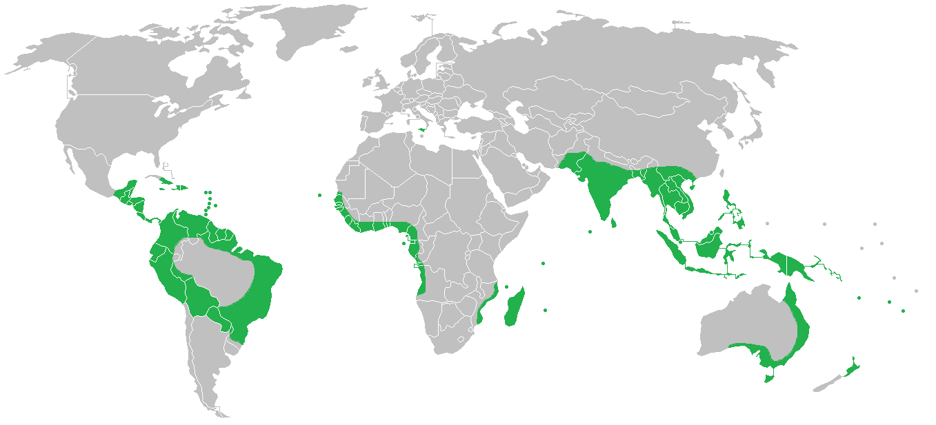 Areal of pineapple